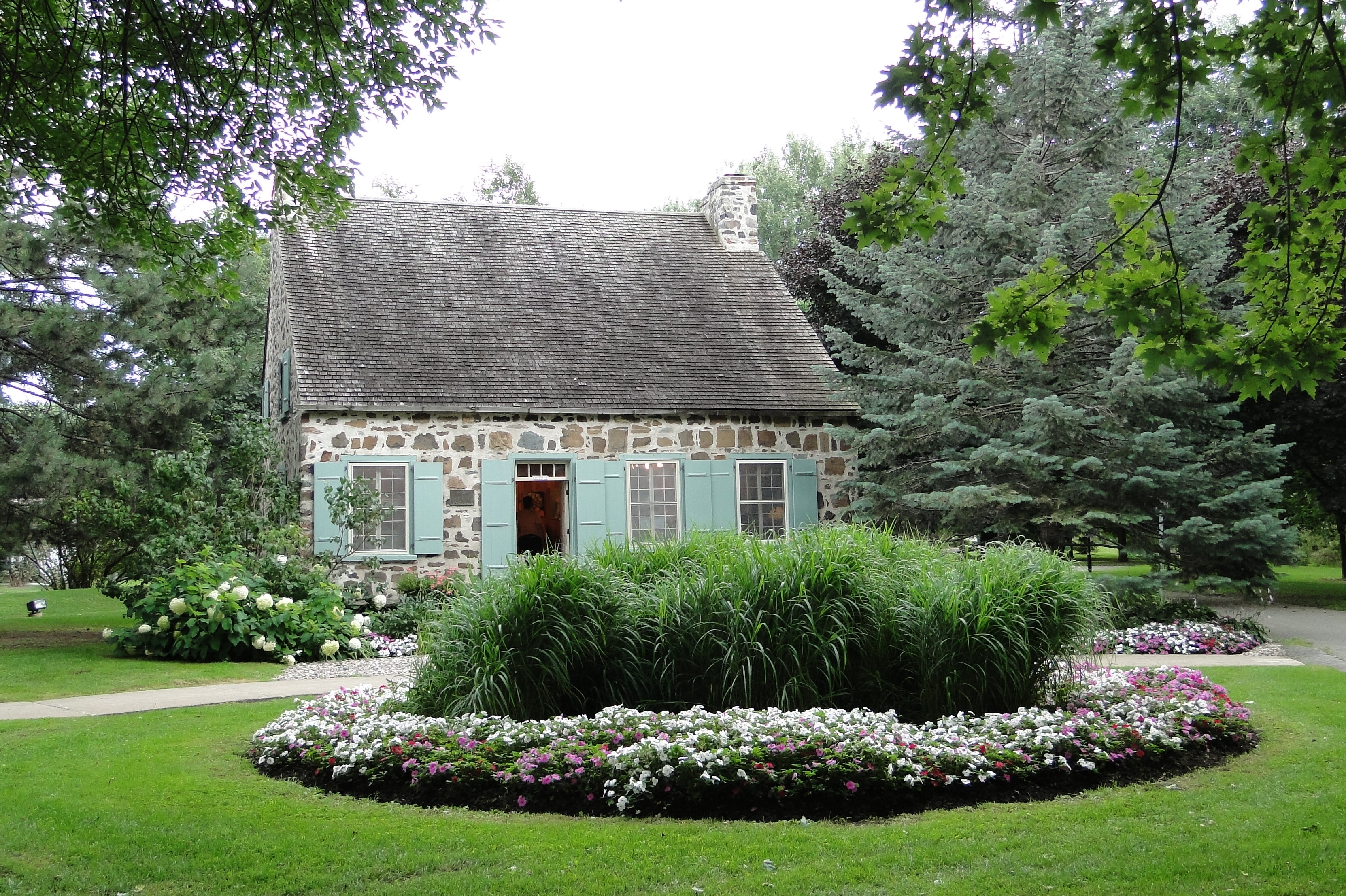 Lafontaine House (1766) where Louis-Hippolyte Lafontaine lived in his childhood, De La Broquerie park, Boucherville, province of Quebec, Canada.